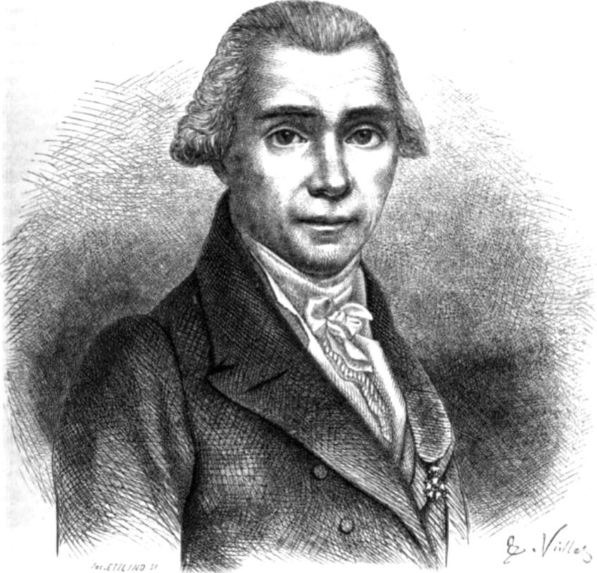 Nicolas-Louis Vauquelin (1763-1829), French chemist.